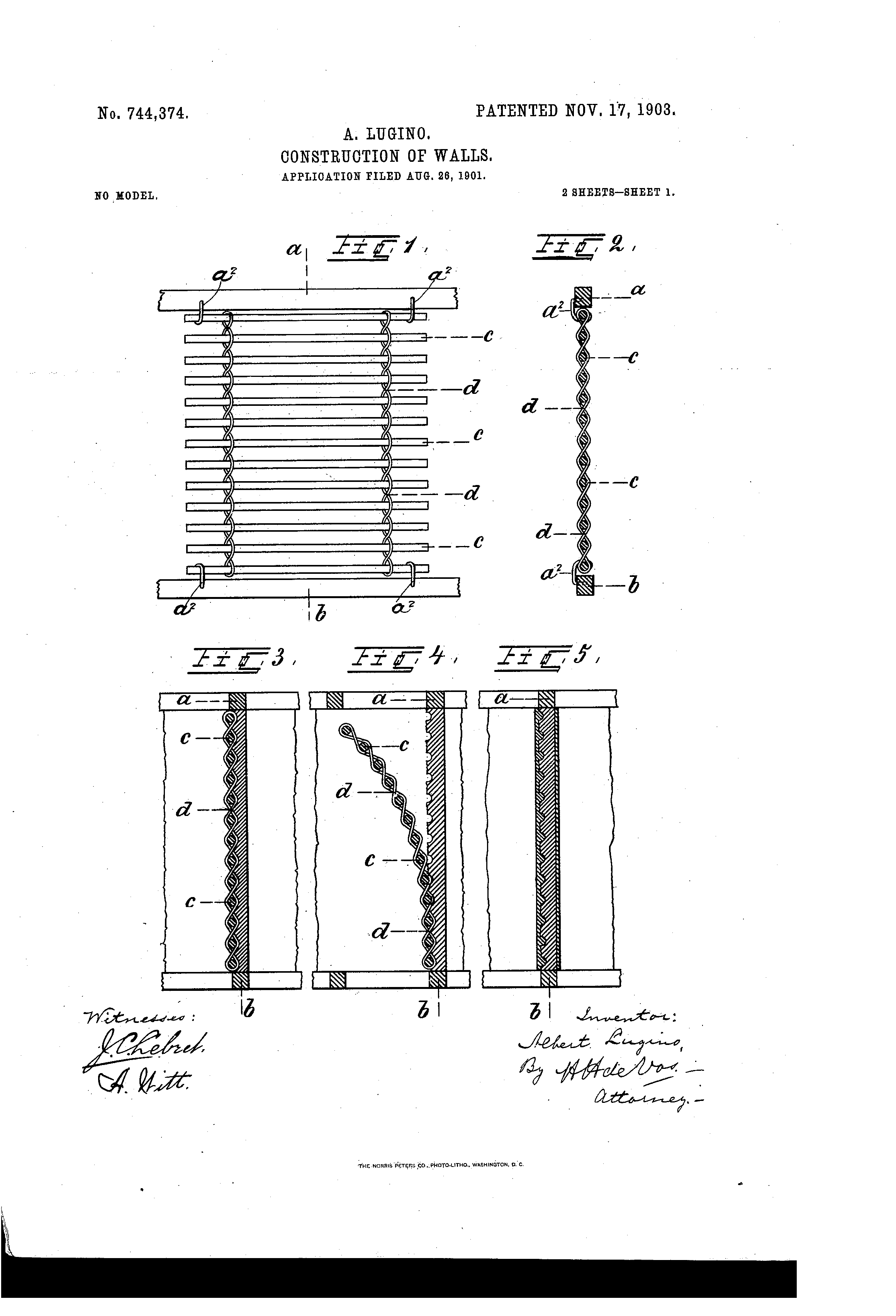 Patent illustration of a wall construction